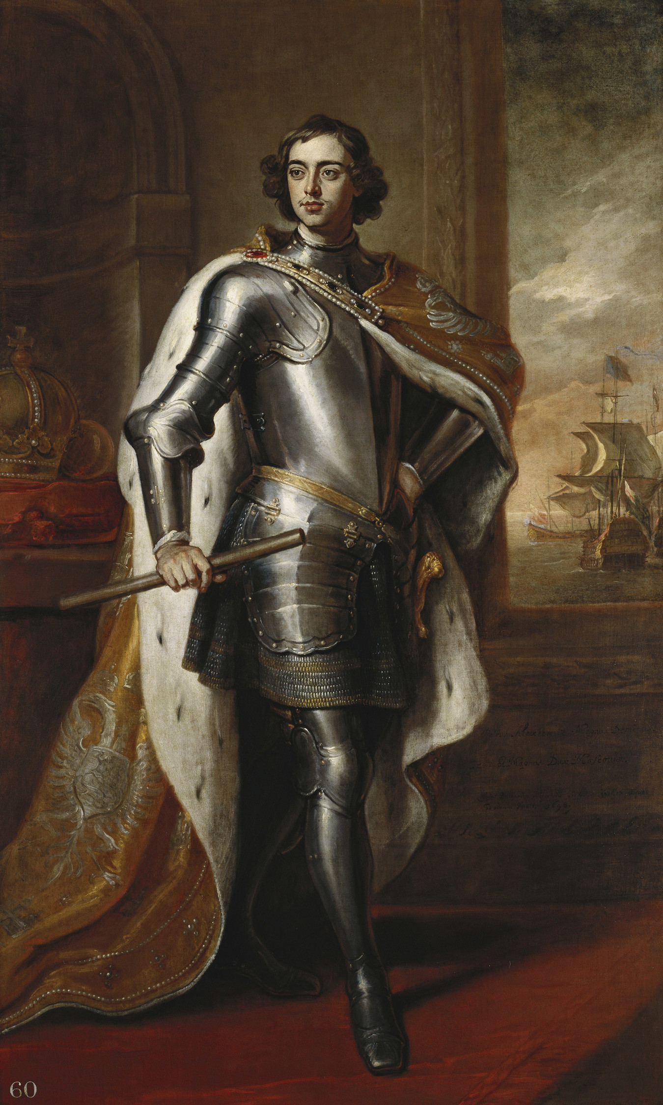 Portrait of Russian Tsar Peter I the Great by Godfrey Kneller (1698). This portrait was Peter's gift to King of England William III. It was painted in 1698 when, between 11 January and 21 April, Peter the Great was in London visiting William III. This was part of his famous "Grand Embassy" of 1697-8 a diplomatic mission which turned into a fact-finding tour of the more advanced countries of Western Europe. the Tzar was especially inetrested in the ship-building of the Dutch and English, having begun the constrauction of a Russian Navy in 1695. The Tzar is here shown wearing armour with an embroidered gold, ermine-lined cloak, his crown on a cushion in a niche; ships can bee seen at manoeuvres through a window.